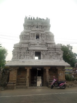 Tiruvarur thoovanayanar temple திருவாரூர் தூவாநாயனார் கோயில்